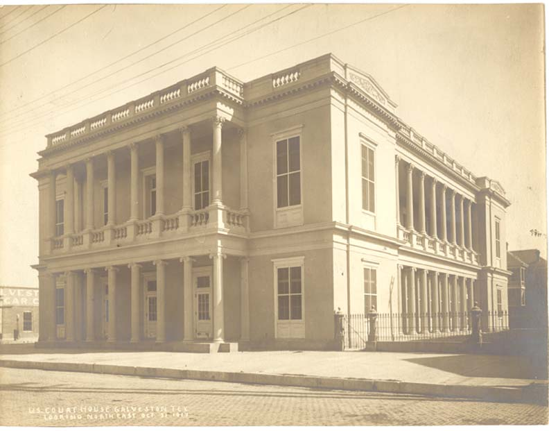 Galveston, Texas U.S. Court House (1917) Completed in 1861. Supervising Architect: Ammi B. Young Extension completed in 1918. Supervising Architect of extension: James A. Wetmore The U.S. District Court for the Eastern District of Texas met here until 1891; the U.S. Circuit Court for the Eastern District of Texas met here from 1862 until 1891; the U.S. District Court for the Southern District of Texas met here from 1917 until 1937. Now leased by the Government Services Administration to the Galveston Historical Foundation.